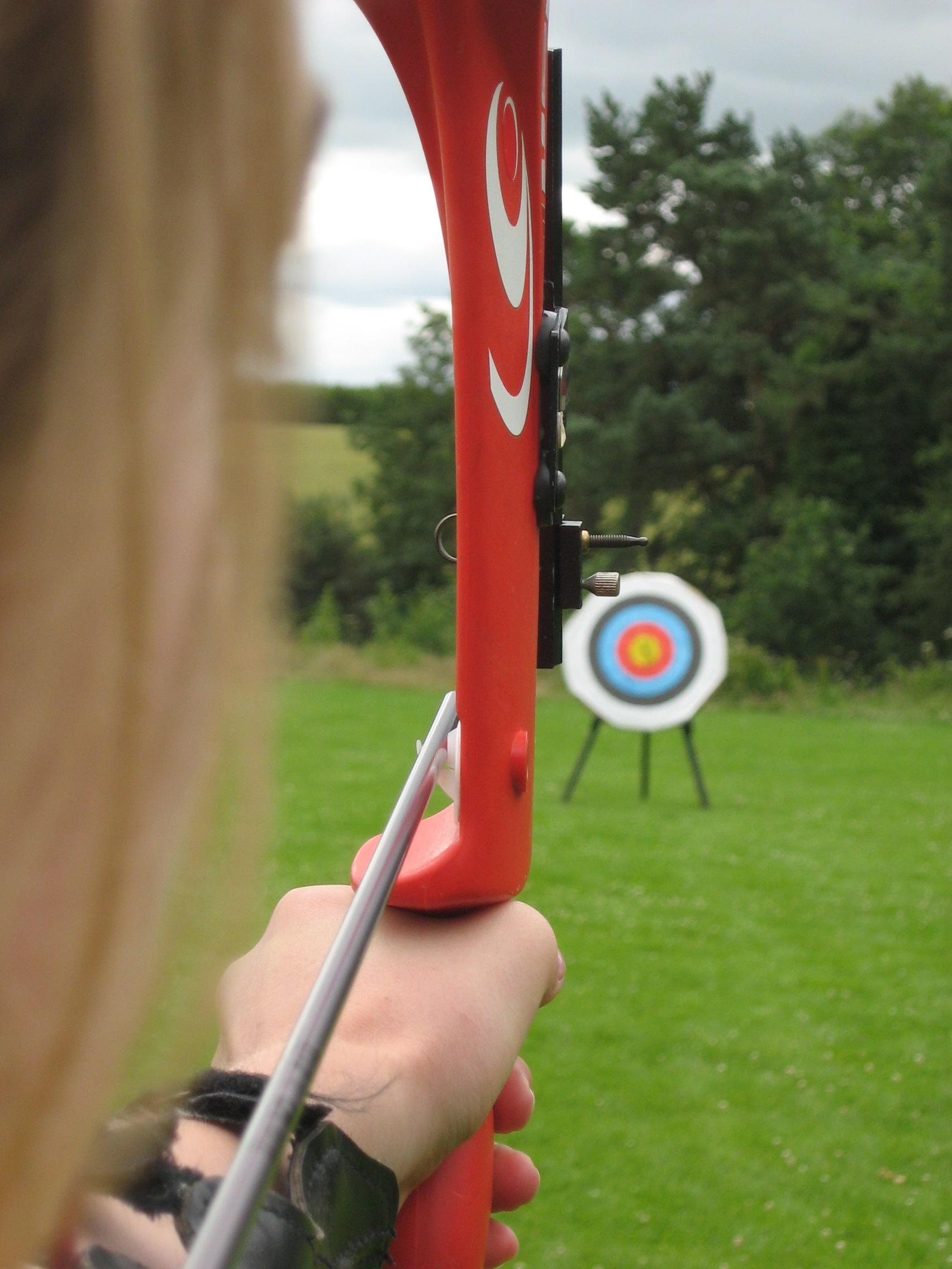 a photograph of somebody shooting a recurve bow at an archery target